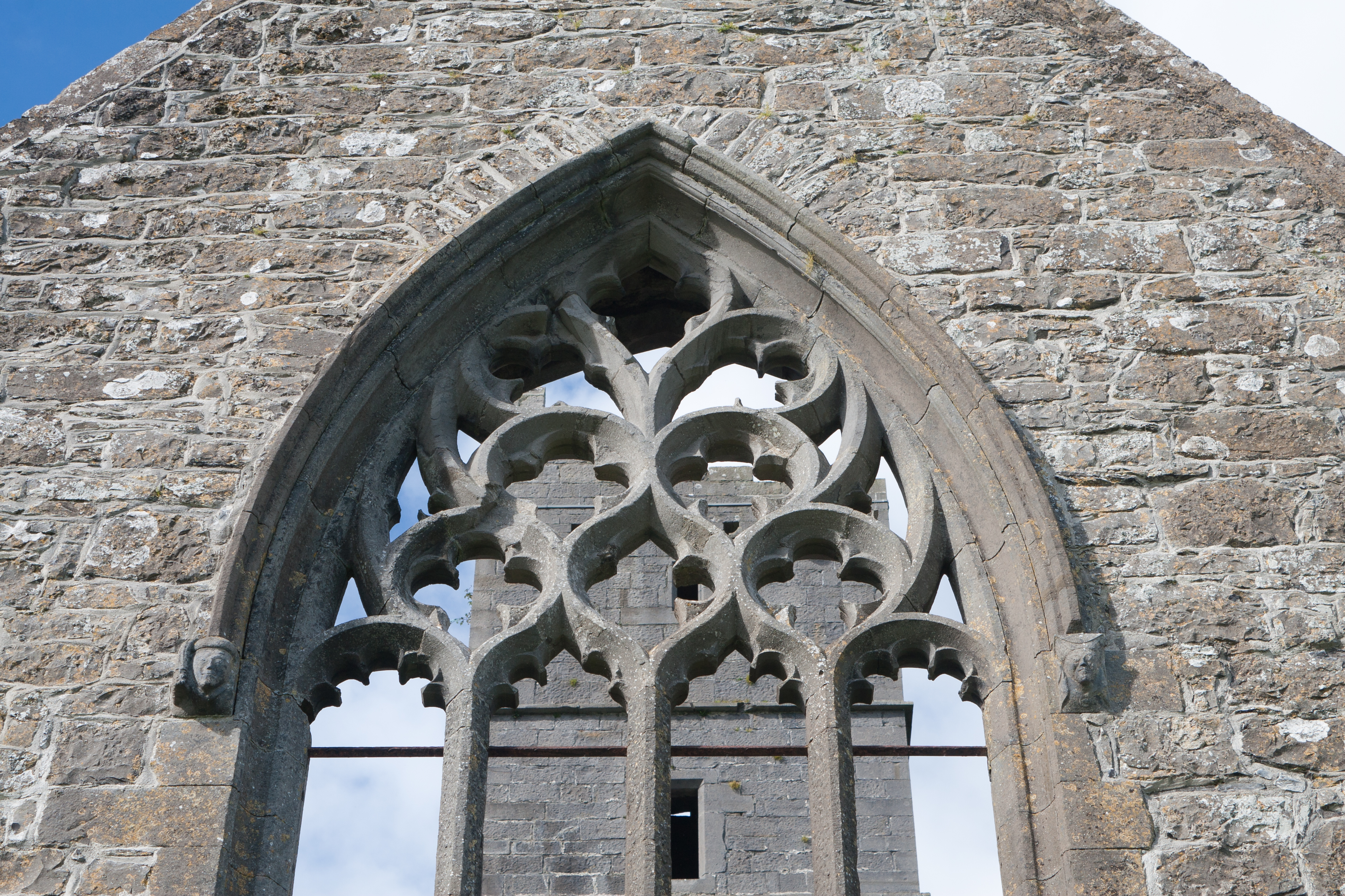 East window of the choir with its hood mould and two label stops.